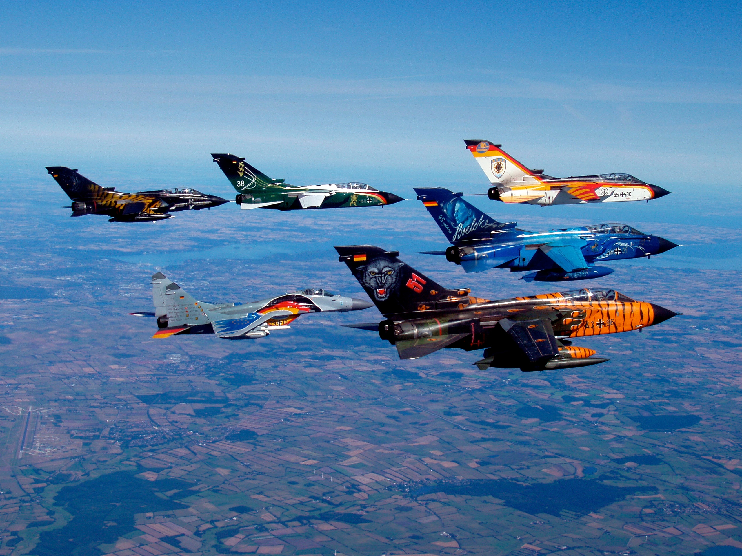 Five Luftwaffe (German Air Force) Panavia Tornado fighters and a Mikojan-Gurewitsch MiG-29 in 2003 (front to back): Tornado RECCE, Aufklärungsgeschwader 51 (AG 51) "Immelmann" (51 Reconnaissance Wing) (43+96), Schleswig-Jagel AB, Schleswig-Holstein (now scrapped); Tornado IDS, Jagdbombergeschwader 31 (JaboG 31) "Boelcke" (31st Fighter-Bomber Wing) (44+31), Nörvenich AB, Northrhine-Westphalia (now a gate guard); Tornado IDS, Marinefliegergeschwader 2 (MFG 2) (45+30), Eggebek AB, Schleswig-Holstein (now in a museum); Tornado IDS, Jagdbombergeschwader 38 (JaboG 38) (38th Fighter-Bomber Wing) (44+08), Jever AB, Lower Saxony (now scrapped); Tornado ECR, Jagdbombergeschwader 32 (JaboG 32) (32nd Fighter-Bomber Wing) (46+54), Lechfeld AB, Bavaria; MiG-29 Fulcrum, Jagdgeschwader 73 (JG 73) "Steinhoff" (73rd Fighter Wing) (29+10), Laage AB, Mecklenburg-Vorpommern (last German MiG-29).